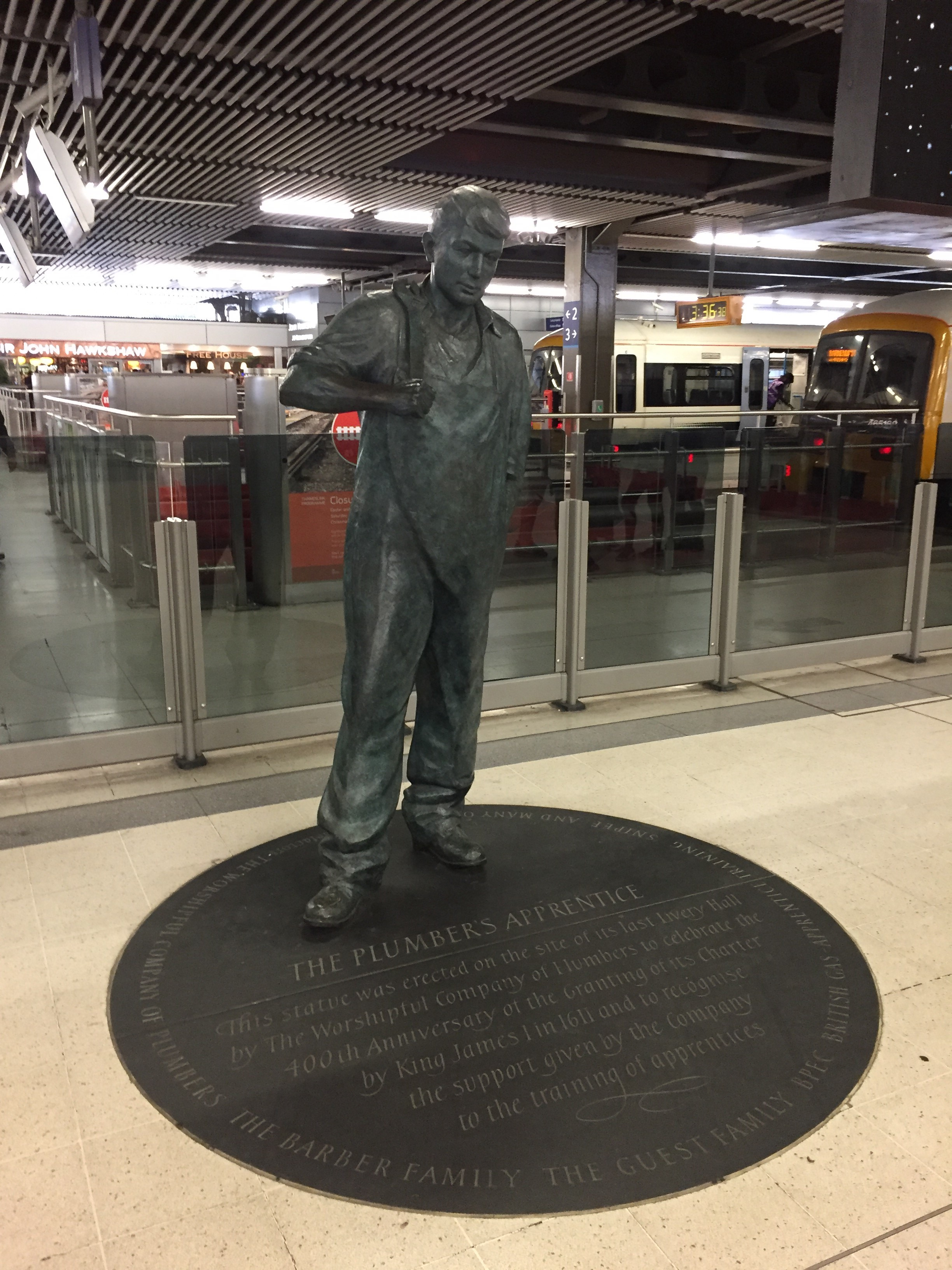 Cannon Street's station is built on the site of the old hall of the Worshipful Company of Plumbers. To mark the 400th anniversary of the Company in 2011, this statue of the Plumber's Apprentice by Martin Jennings was unveiled by the Duke of Gloucester